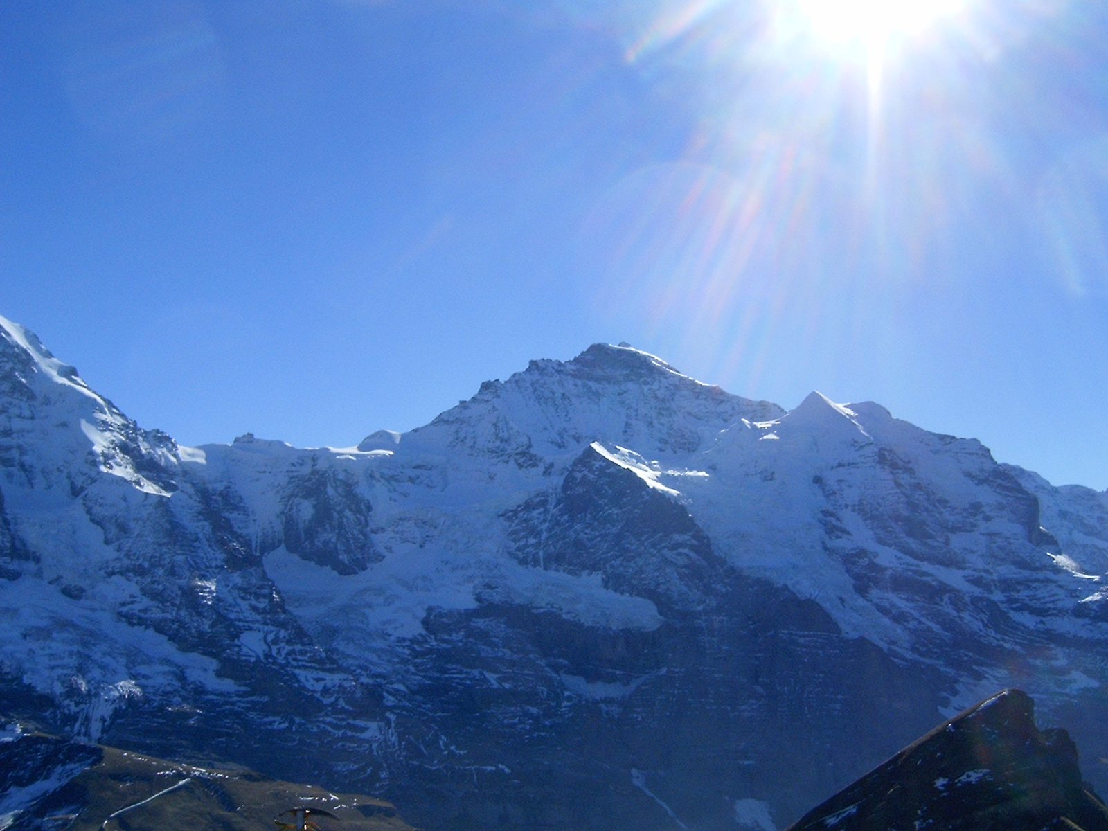 The Jungfrau - viewed from the Tschuggen